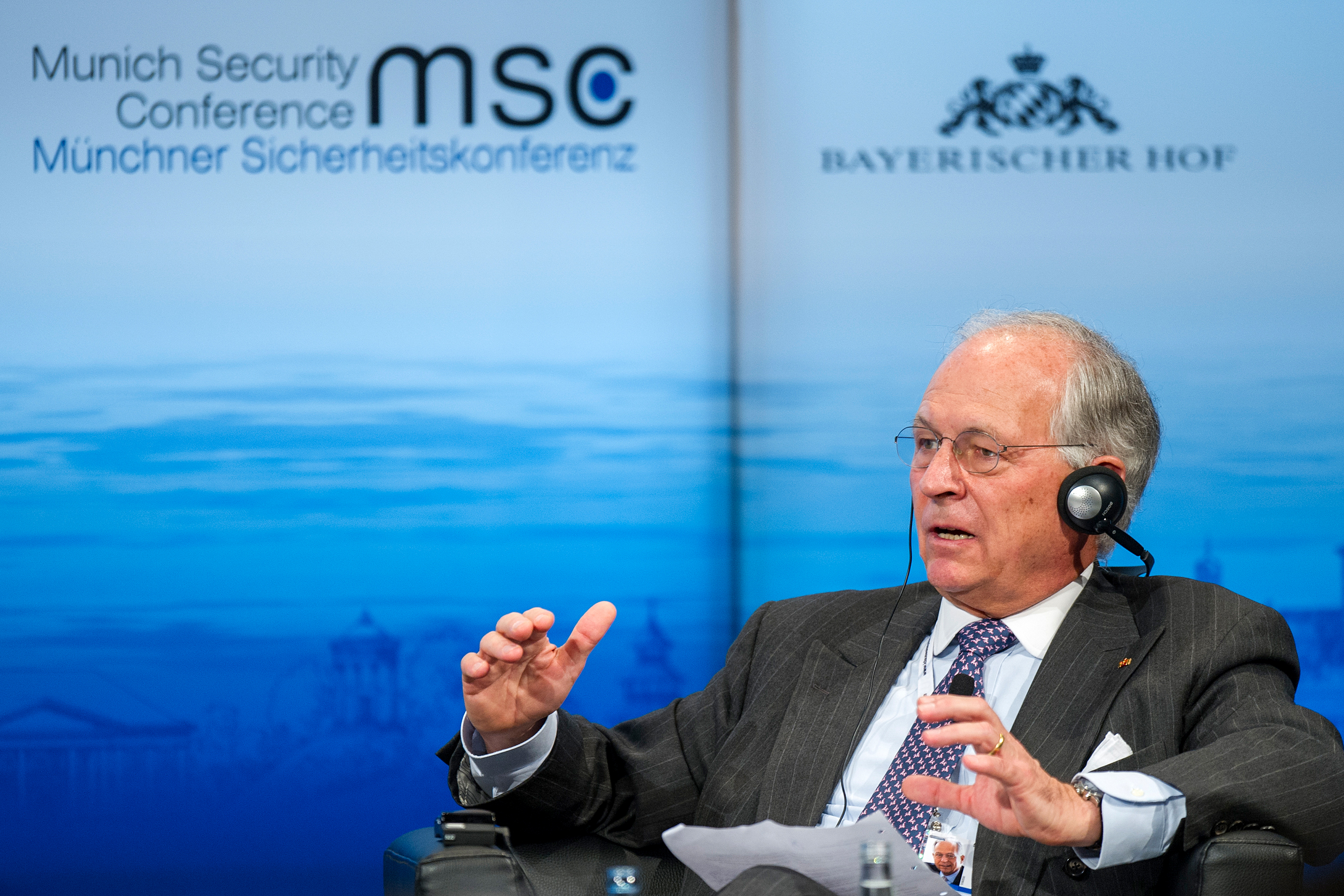 50th Munich Security Conference 2014: Wolfgang Ischinger: Wolfgang Ischinger